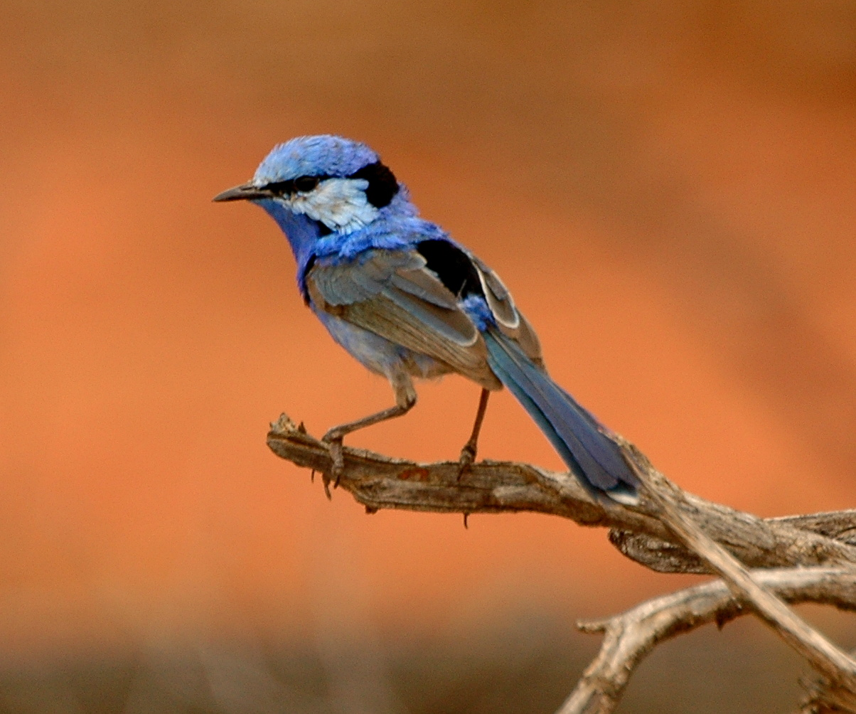 Splendid Fairy-wren (Malurus splendens) Male, Cunnamulla, SW Queensland, Australia